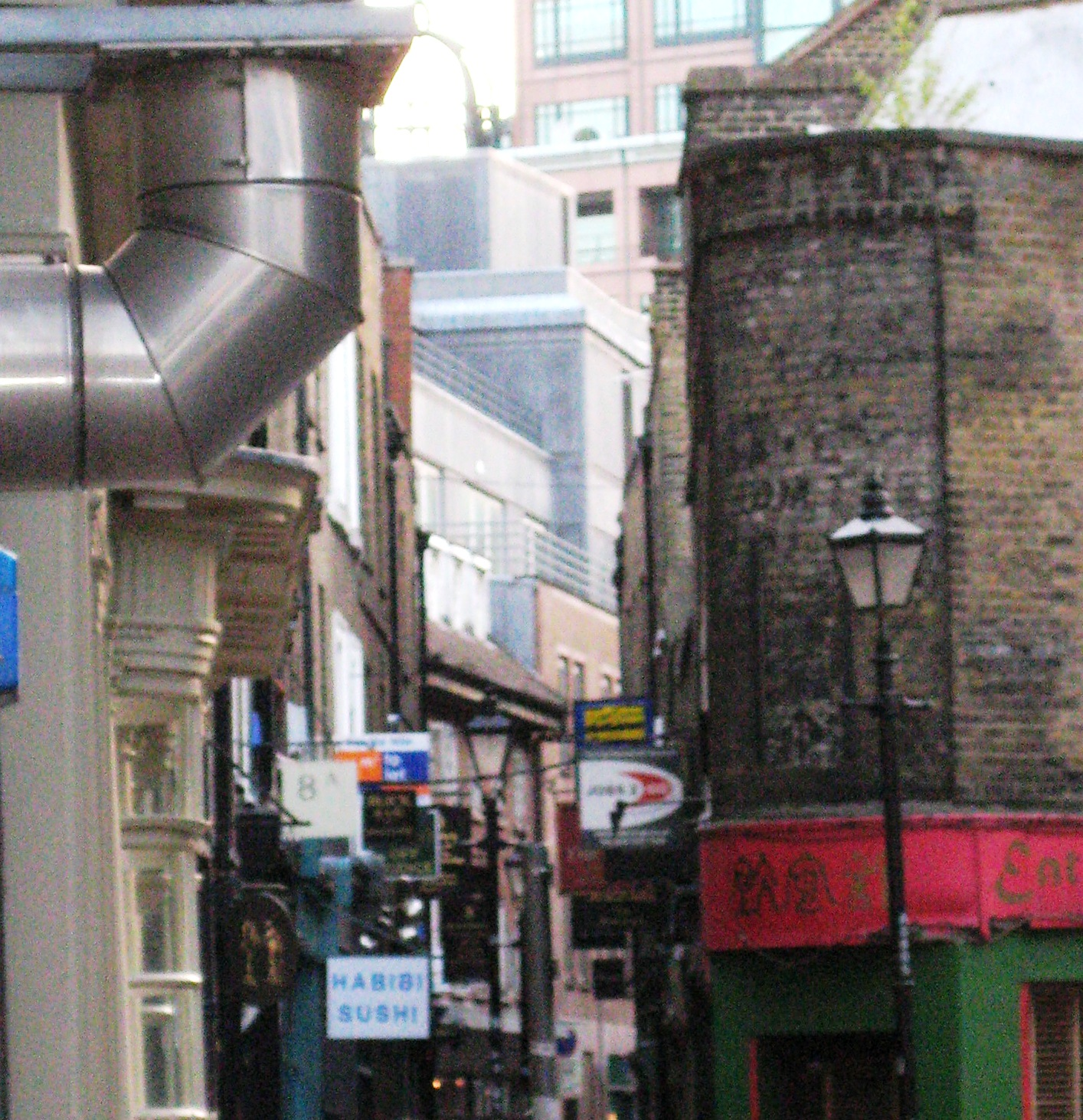 The famous "Diagon Ally" from Harry Potter books, in London